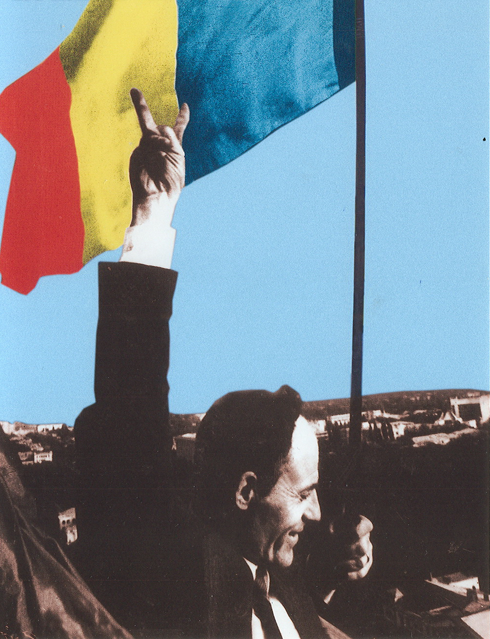 Gheorghe Ghimpu replaces the Soviet flag over the Parliament with the national one on April 27, 1990